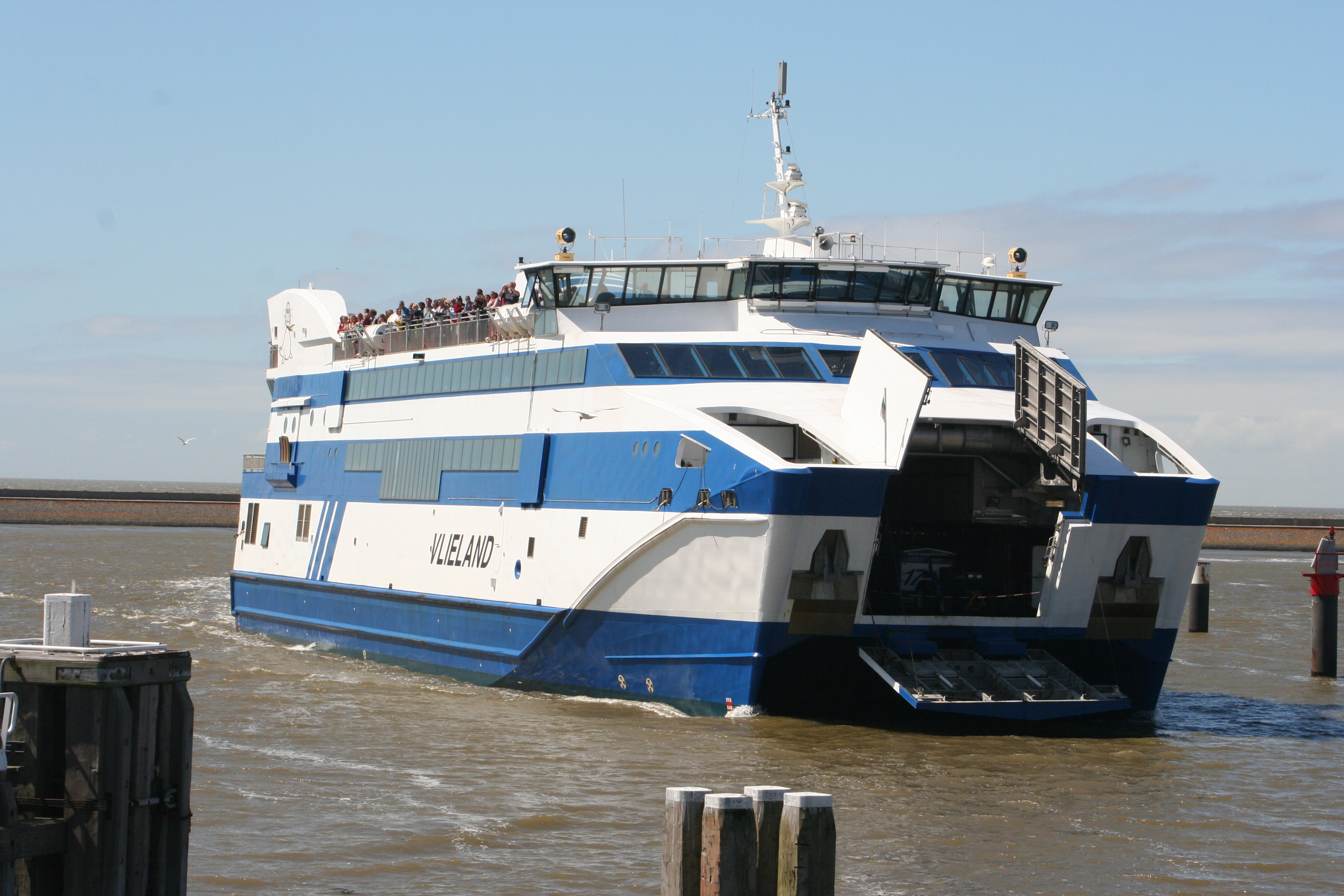 Ferry boat "Vlieland" For ship details and history see her category:IMO 9303716